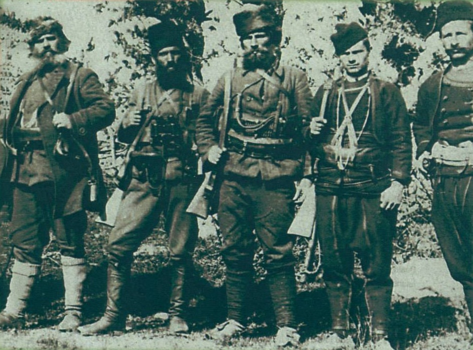 The vojvodi from ITRO Tane Nikolov, Dimo Nikolov, Mitryu Arkumarev, Rafail Karakachanov and Stayko Zapartov.